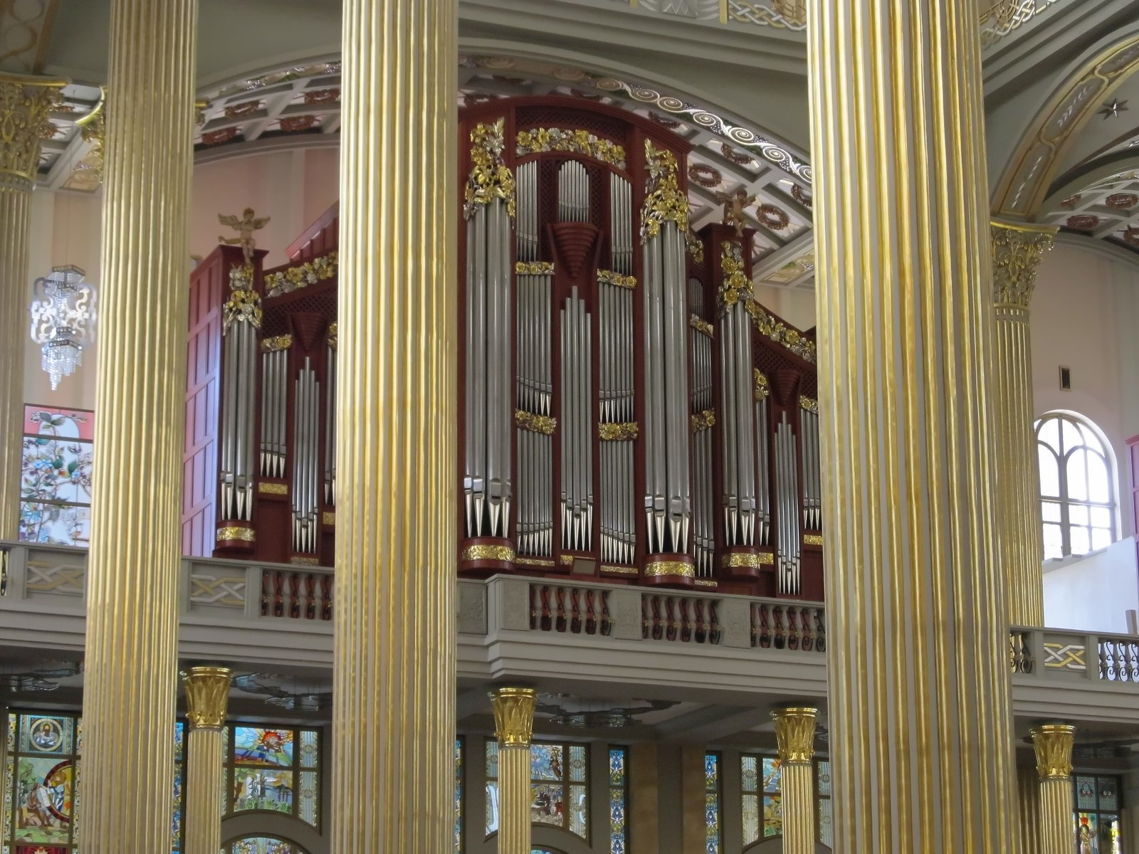 The interior of the Basilica of the Virgin Mary in Lichen Lichen Stary